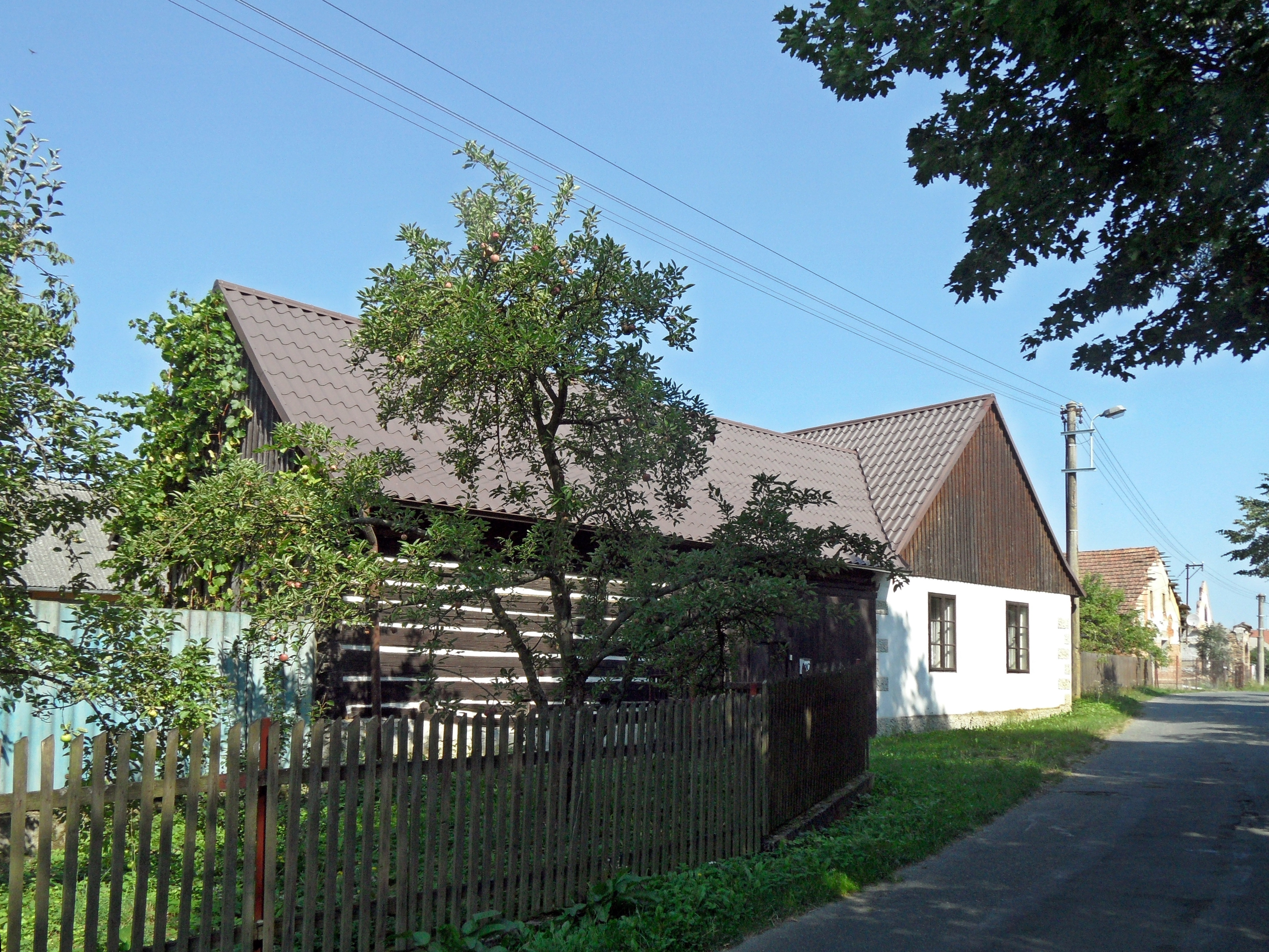 Senetín A. Building No. 10. Kutná Hora District, the Czech Republic.